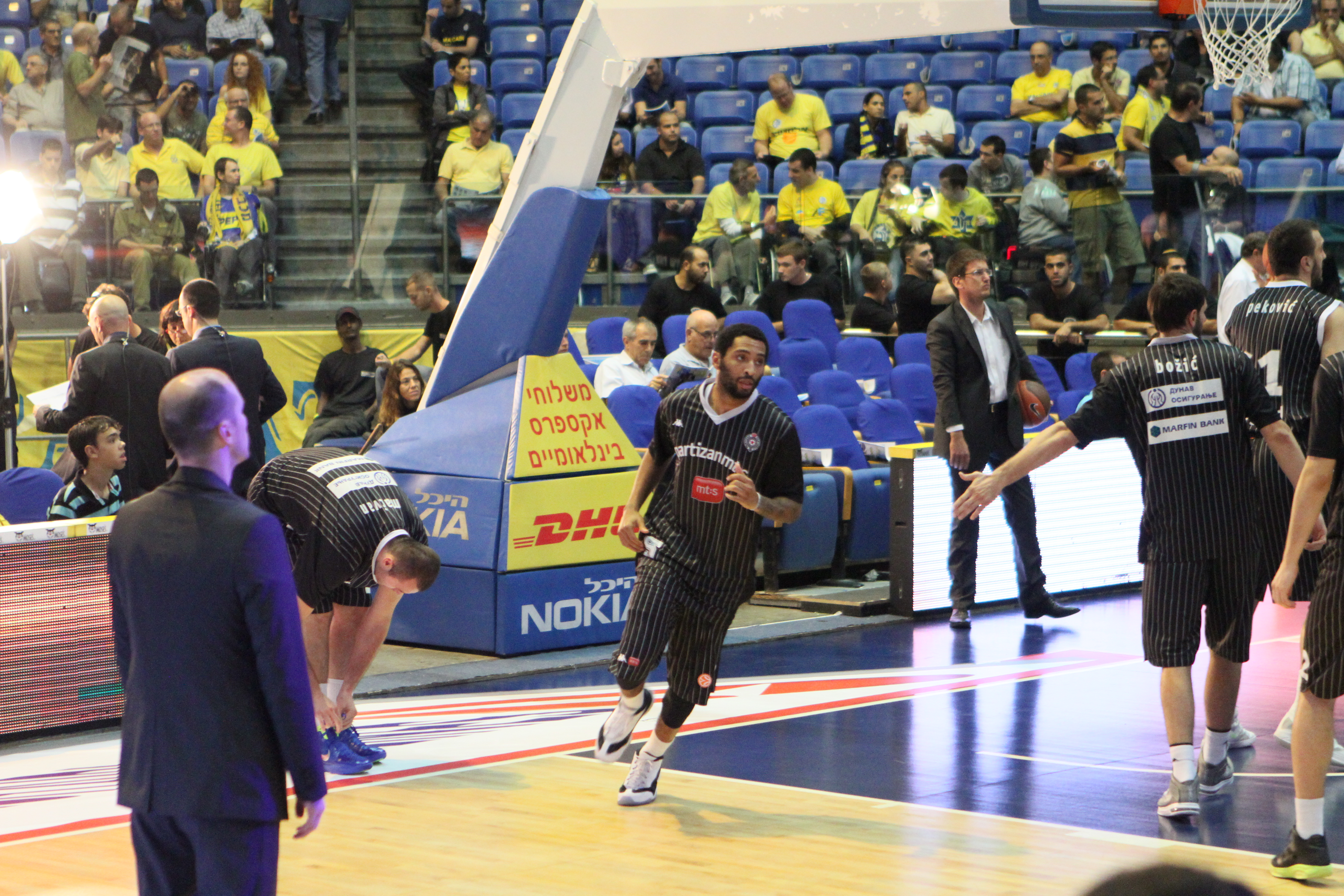 Acie Law Playing with Partizan in Tel Aviv